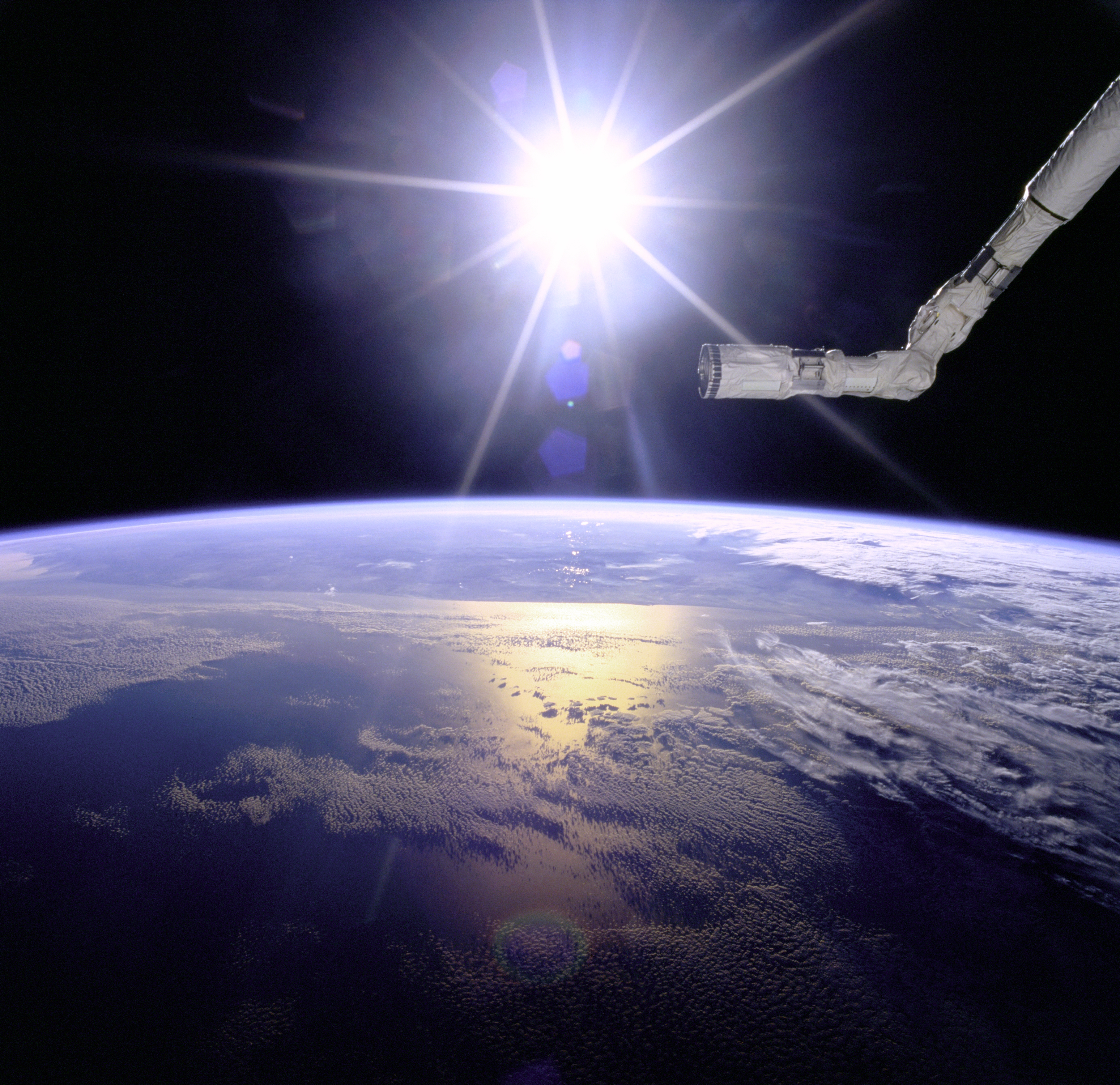 View of the Remote Manipulator System (RMS) end effector over an Earth limb with a solar starburst pattern behind it.